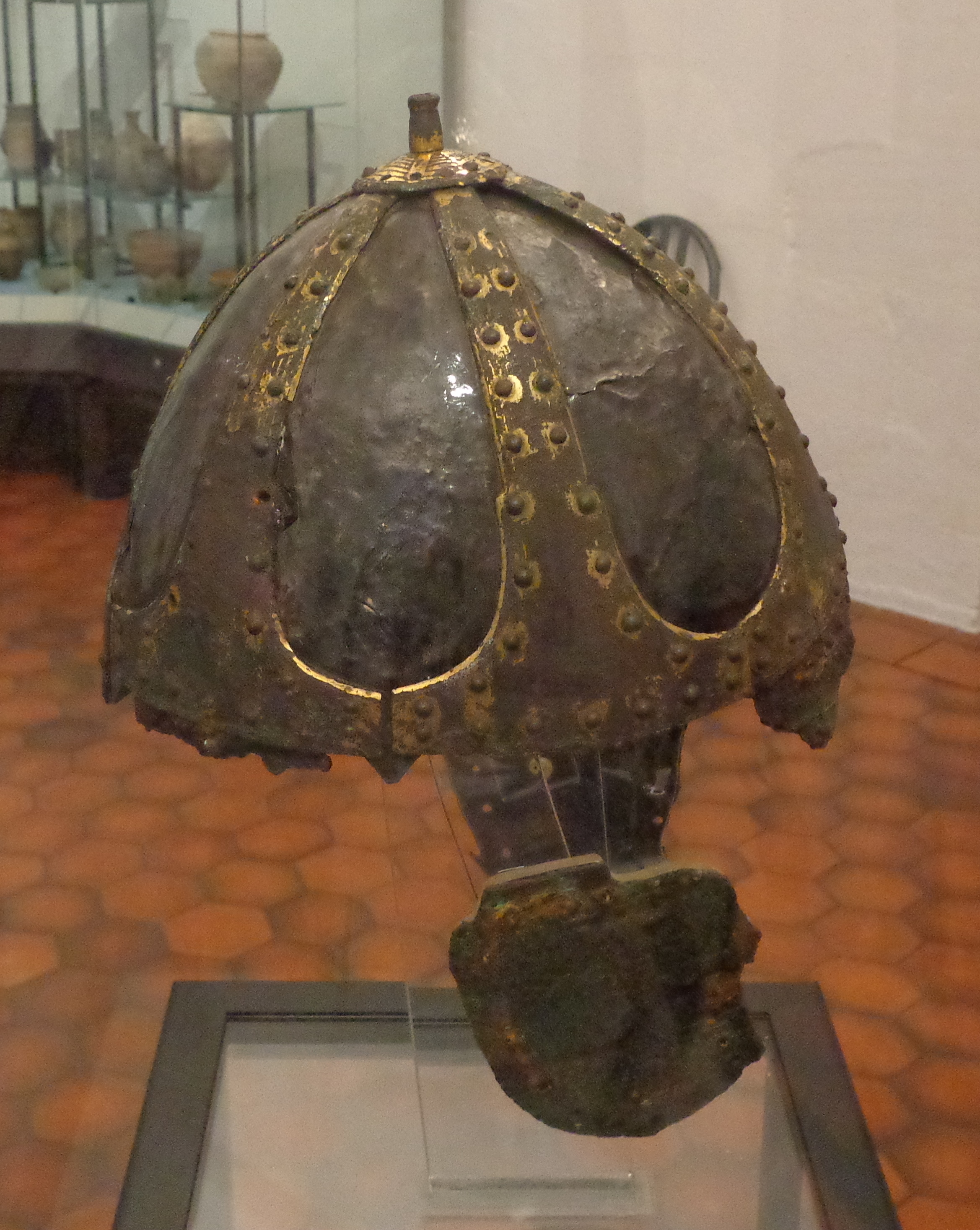 A 6th-century Merovingian helmet kept in the archaeological museum of Strasbourg, France